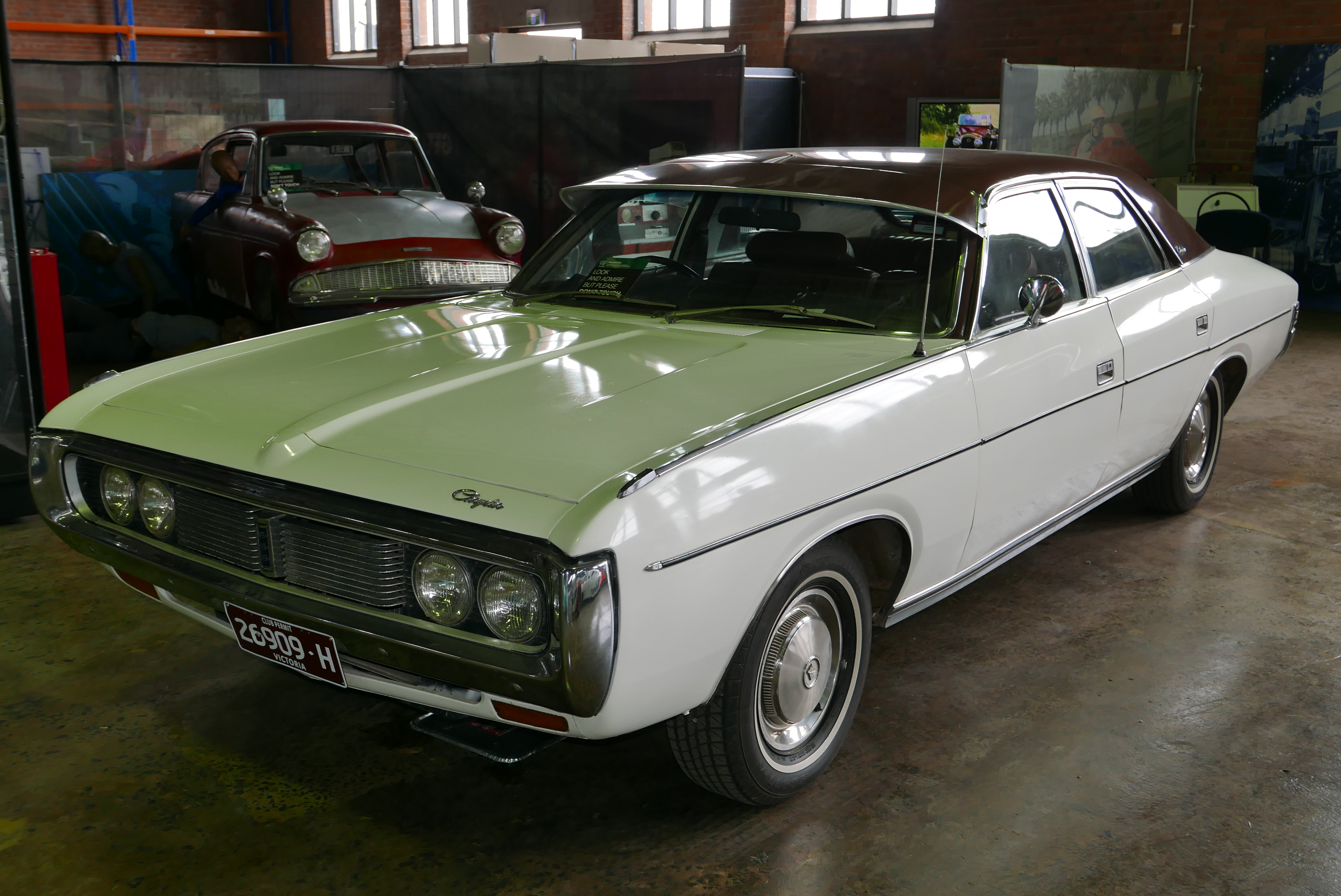 1974 Chrysler by Chrysler (CJ) sedan. Photographed at the Geelong Museum of Motoring and Industry, North Geelong, Victoria, Australia.